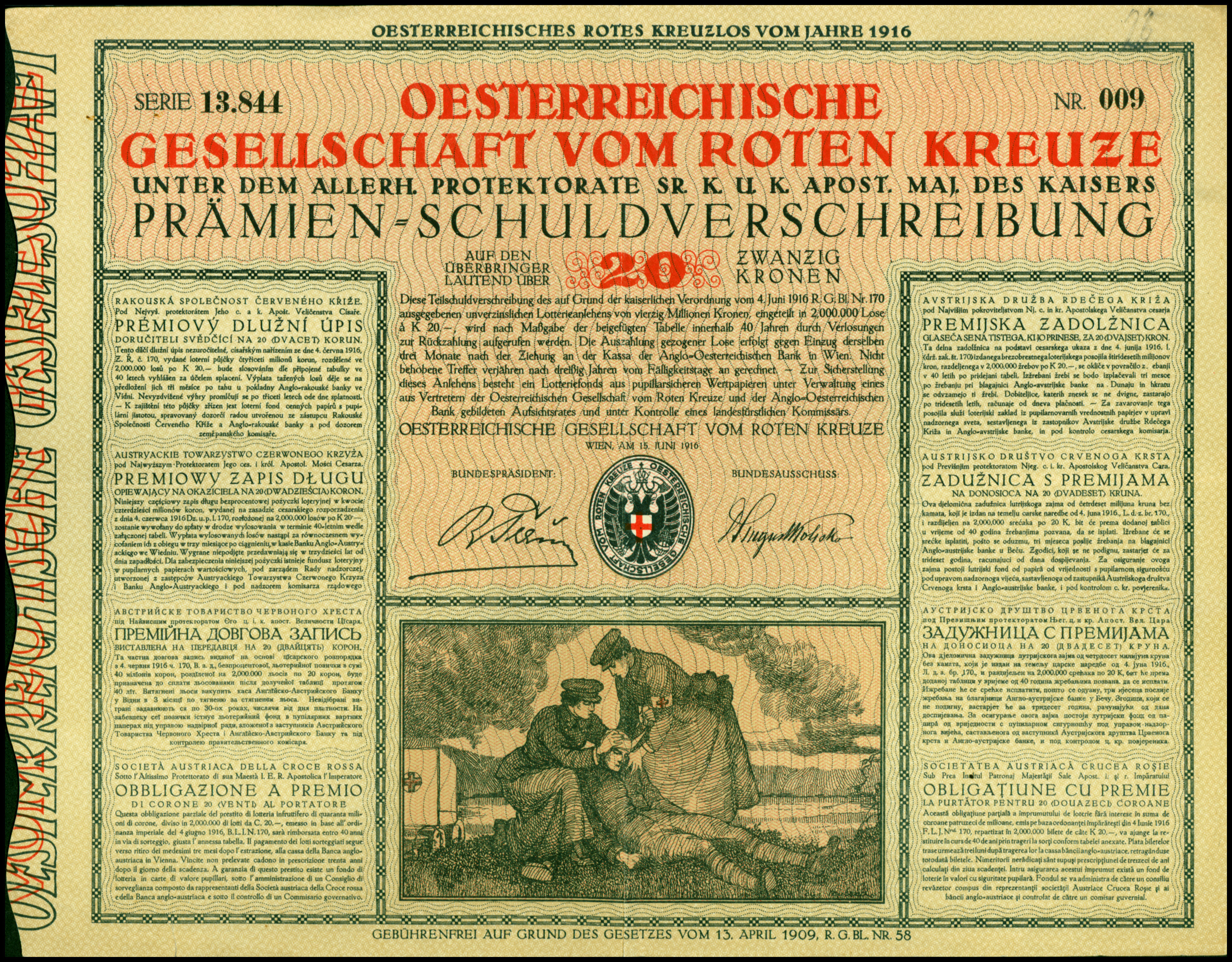 Bond of the Oesterreichische Gesellschaft vom Roten Kreuze, issued 15. June 1916